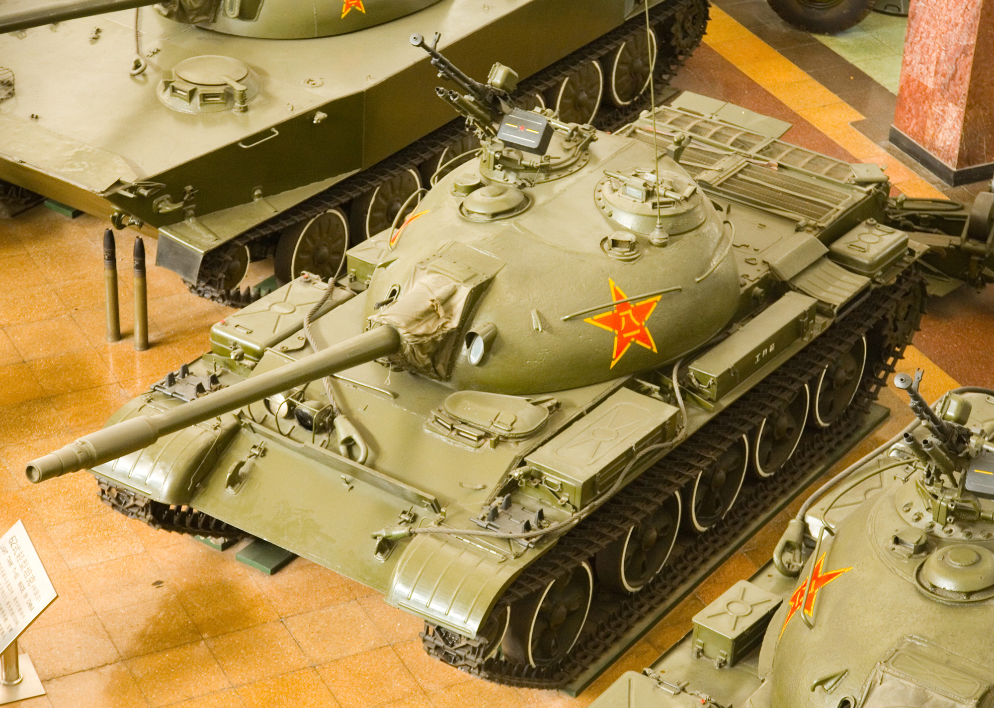 A Chinese Type 62 tank at the Beijing military museum